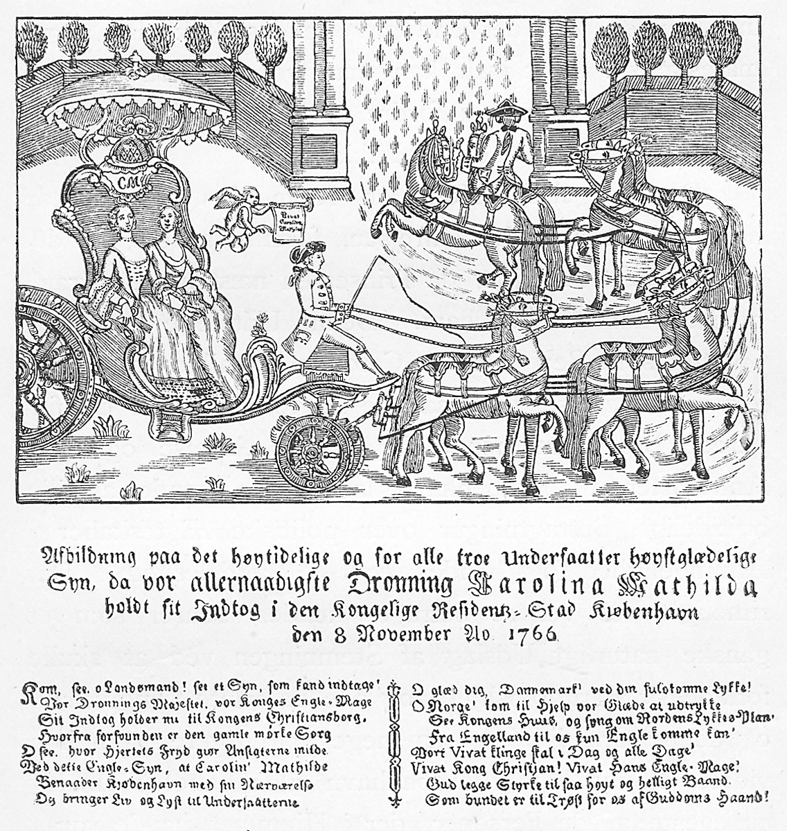 Caroline Matilda of Great Britain (11 July 1751 – 10 May 1775), known to the Danish as Caroline Mathilde, was born in Great Britain to Frederick, Prince of Wales, and Princess Augusta of Saxe-Gotha. At the age of 15 years, she left Britain for Denmark, where she married her cousin Christian VII of Denmark on 8 November 1766 at Christiansborg Palace in Copenhagen. This broadsheet was printed to mark her arrival in Copenhagen and her marriage to the king.